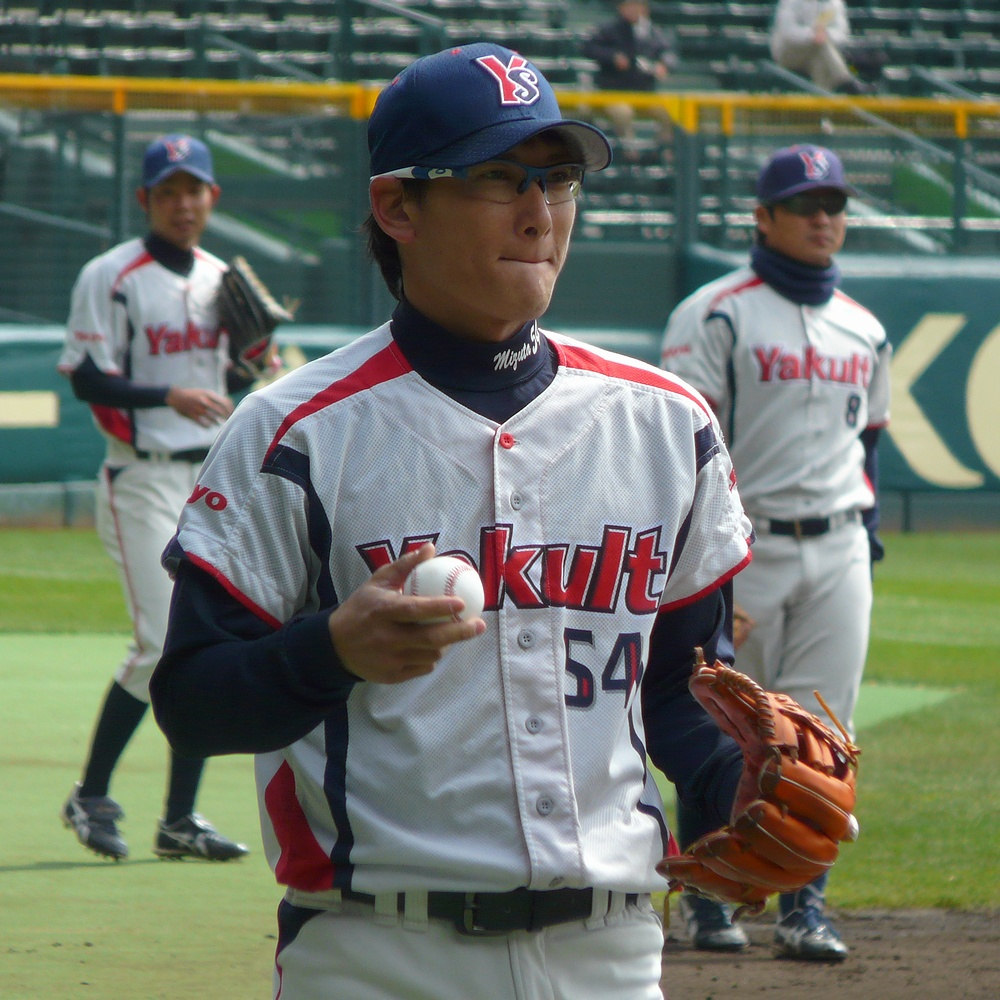 Keisuke Mizuta, infielder of the Tokyo Yakult Swallows, at Hanshin Koshien Stadium.